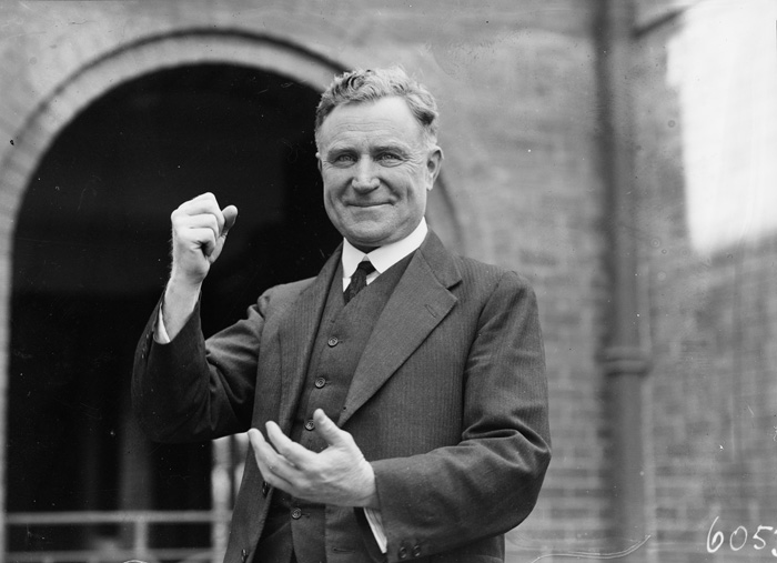 Australian politician Earle Page